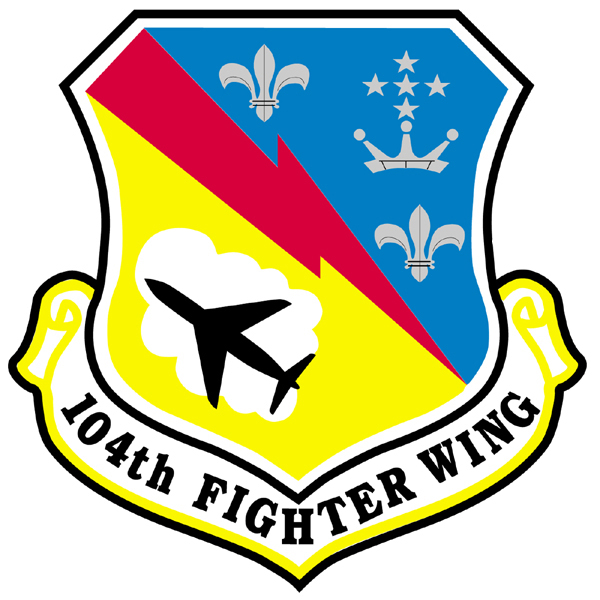 The multi-color 104th Emblem is proudly worn by both the 131st Fighter Squadron and the 104th Fighter Wing, and has a symbolic meaning as explained below: Blue and Yellow: the Air Force colors Blue alludes to the sky, the primary theater of Air Force operations Yellow refers to the sun and the excellence required of Air Force personnel Aircraft in Cloud: Represents the primary mission - combat capability through air power Bolt of Lightning: Represents the eagerness to strike Five Stars: Represents the 131st Fighter Squadron, symbolized by their 1-3-1 configuration Crown & Crown Points: Represents the ethnic diversity of the men and women who founded the 104th Two Fleur-de-lis: Represents the unit deployments to and from France during the 1961 blockade of Berlin by the Soviet Union Emblem designed by: MSgt. Robert J. Della Penna, Original artwork by: SSgt. Donald Bein, Computer Generated by: MSgt. Robert J. Sabonis